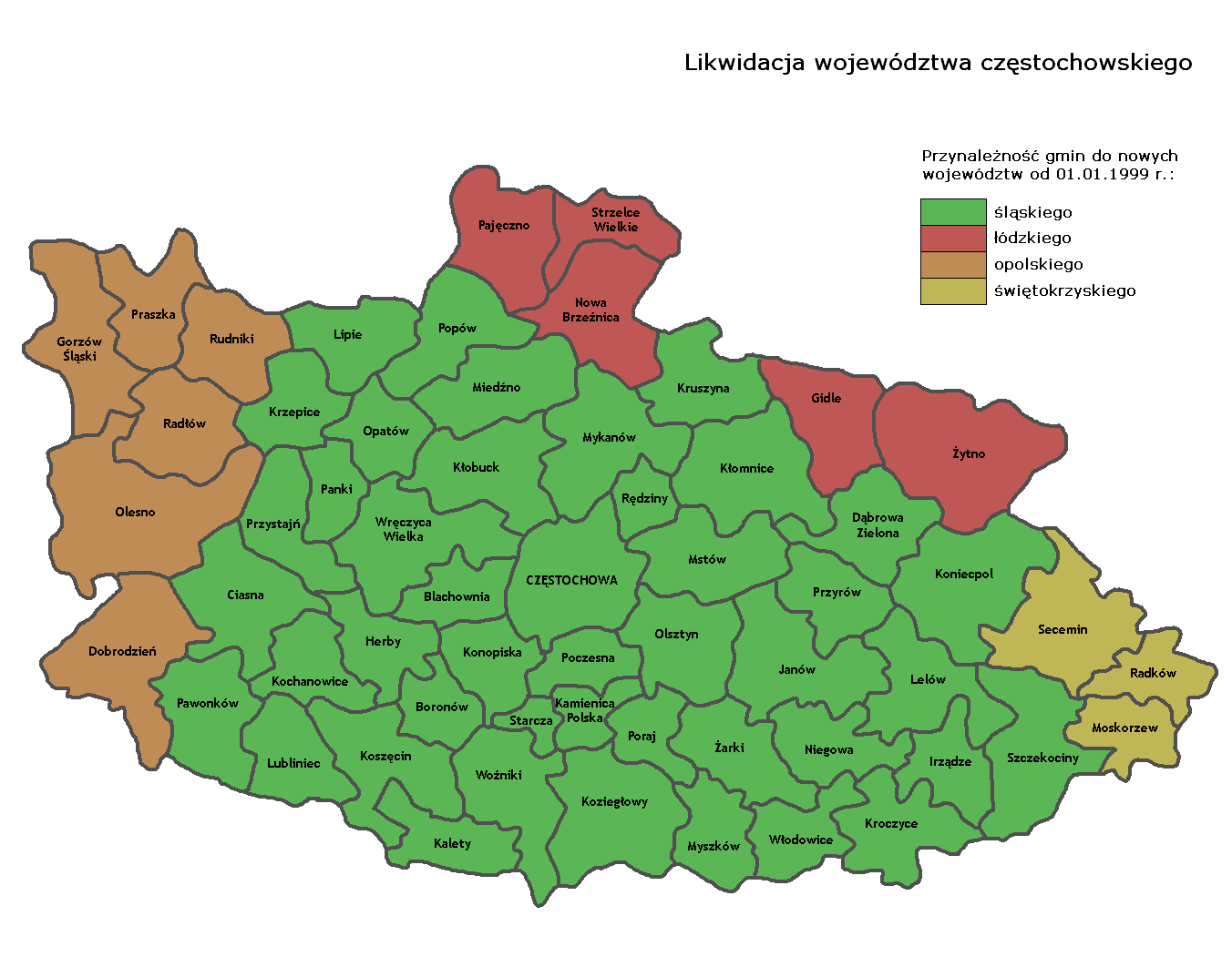 Patriotion of częstochowskie voivodeship in 1999.